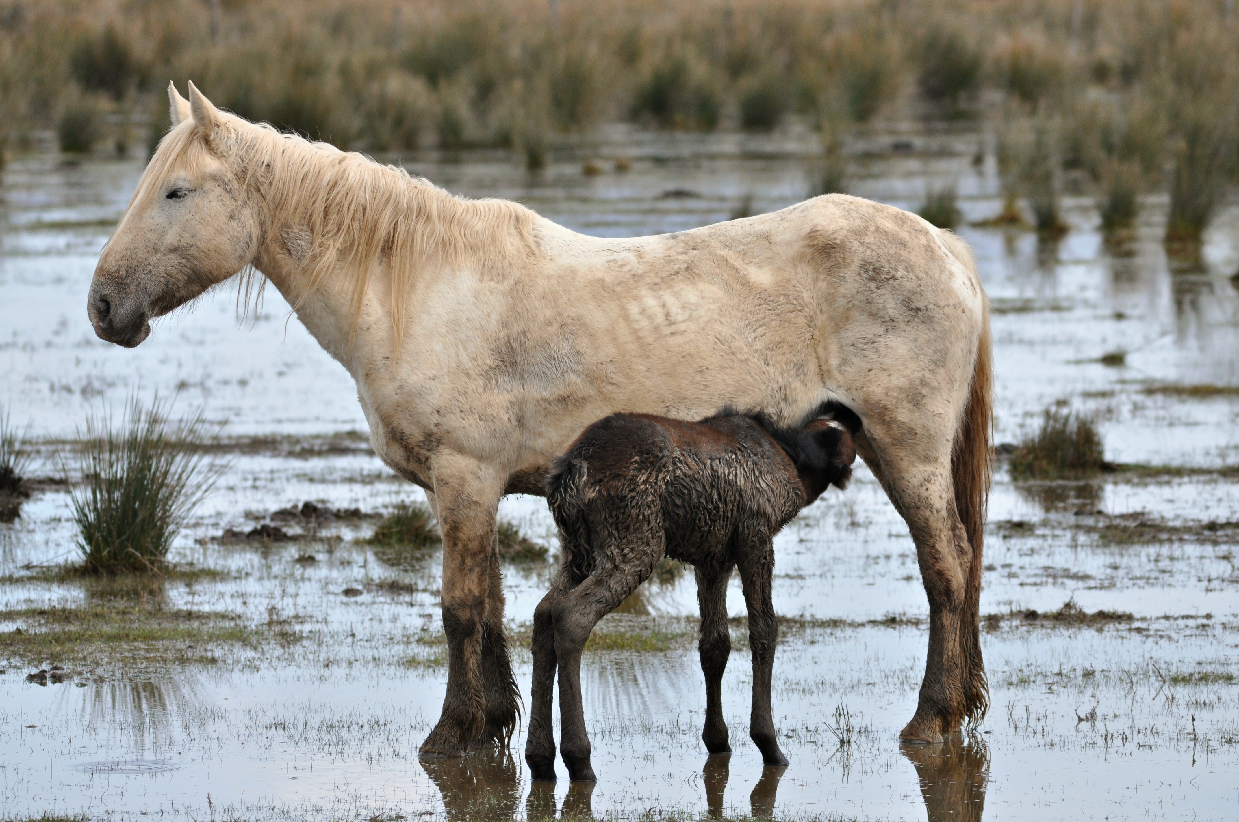 Feral horse of the wetlands in the alt Empordà, Catalonia, Spain.